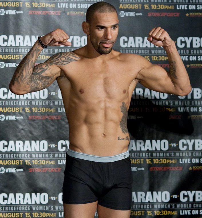 Mixed martial arts fighter Jay Hieron, at the weigh-in before the Strikeforce: Carano vs. Cyborg event.